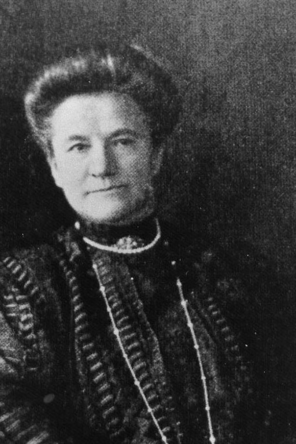 Rosalie Ida Blun Straus (née Blun), Titanic Victim, 1st Class Passengers. Born: Tuesday 6th February 1849 in Worms Hessen Germany. Age: 63 years 2 months and 9 days. Last Residence: New York City, New York. United States. First Embarked: Southampton on Wednesday 10th April 1912. Ticket No. 17483 , £221 15s 7d. Cabin No.: C55. Died in the sinking. Body not recovered